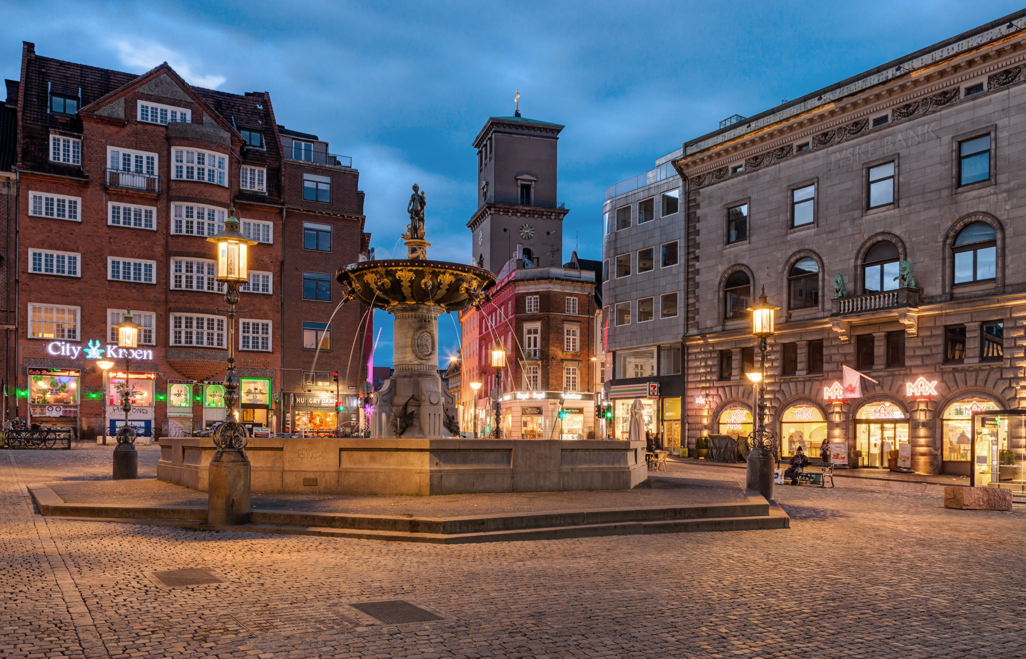 The Caritas Well (also known as the Caritas Fountain) in evening, Copenhagen, Denmark.